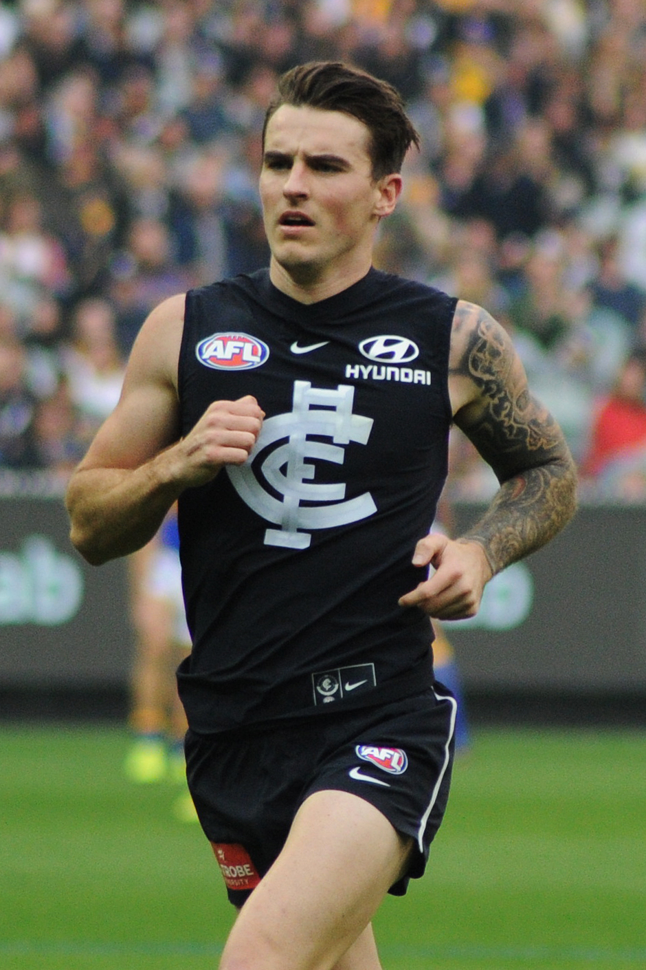 Aaron Mullett during the AFL round five match between Carlton and West Coast on 21 April 2018 at the Melbourne Cricket Ground in Melbourne, Victoria.